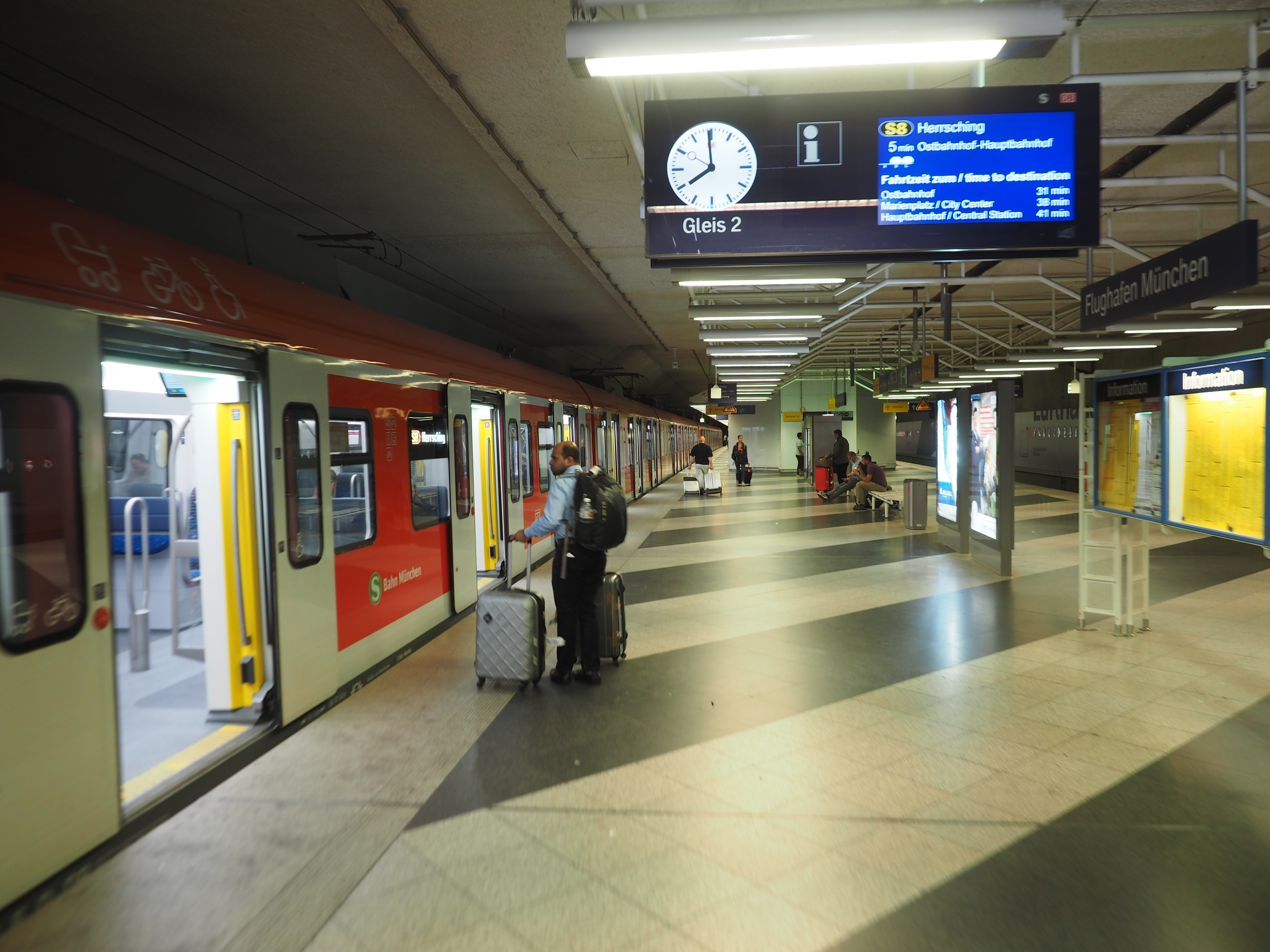 The S-Bahn station at Flughafen München (Munich Airport), with an S-Bahn train on line S8 having just arrived, ready to depart to Munich centre.